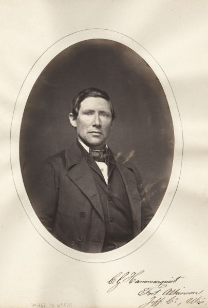 Waist-up oval portrait of Charles Hammarquist, Republican representative in the Wisconsin State Assembly from Fort Atkinson